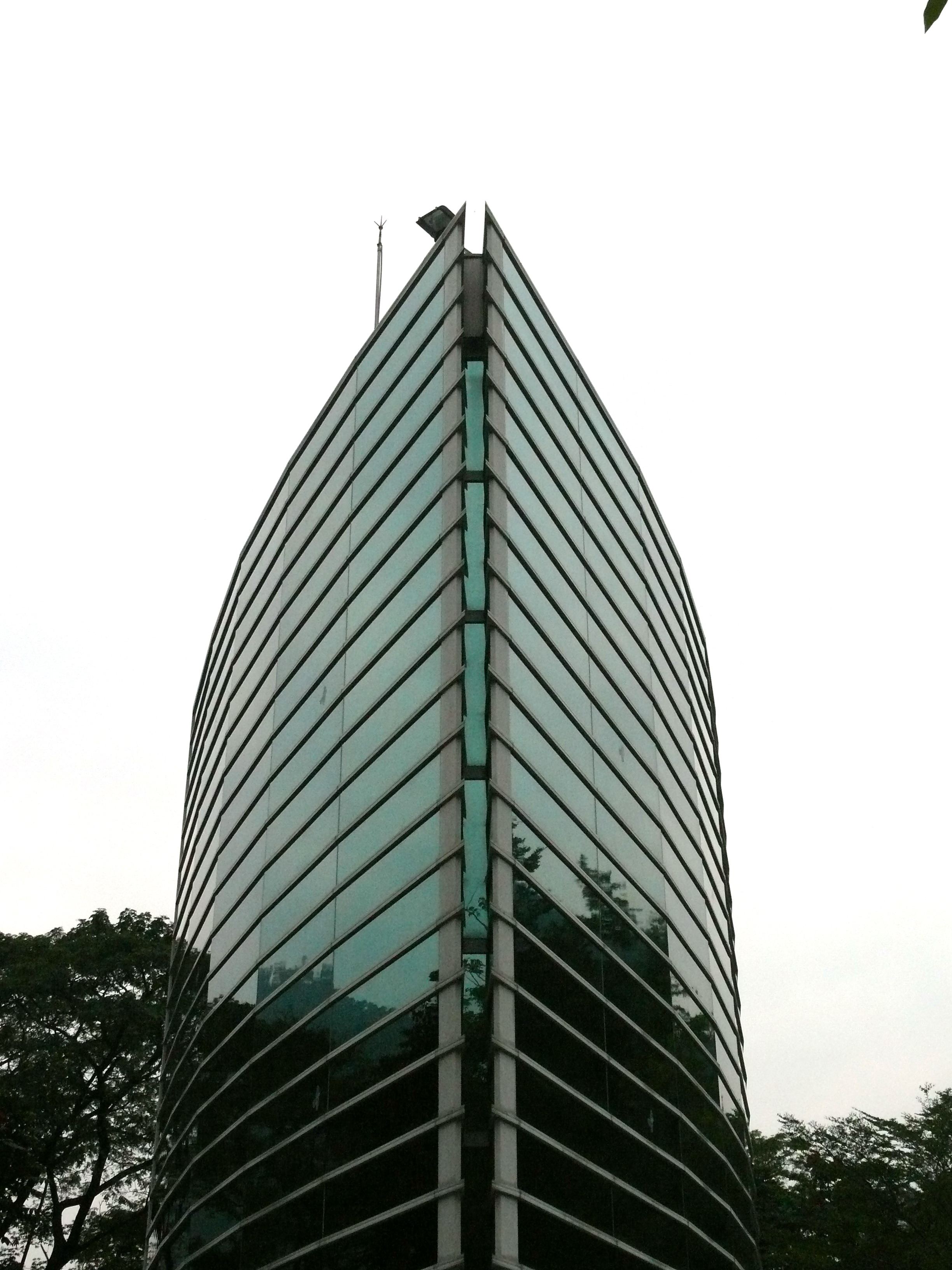 The Eye of Tsengwen at the Tsengwen Reservoir, Chiayi, Taiwan. Inside is a tourist service center.